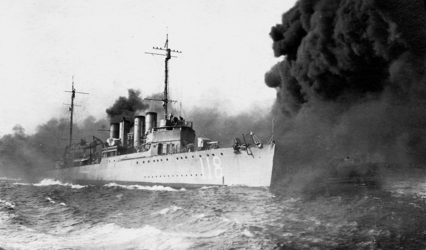 The U.S. Navy Wickes-class destroyer USS Lea (DD-118) pictured laying a smoke screen, circa 1921.